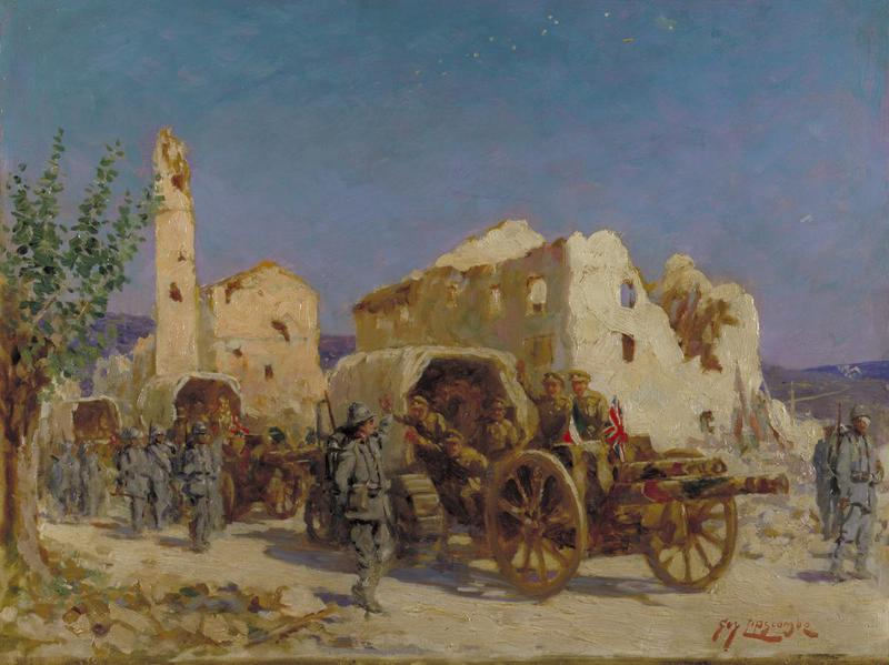 The Arrival of the First Guns on the Carso Front, Italy, 1916 image: A line of British artillery waggons travelling along an Italian road. They pass a group of Italian soldiers walking along the road; the troops wave and cheer to each other. Behind the convoy are two large badly bombed buildings, one with a tall chimney or tower. There are dots of anti-aircraft fire in the sky above.